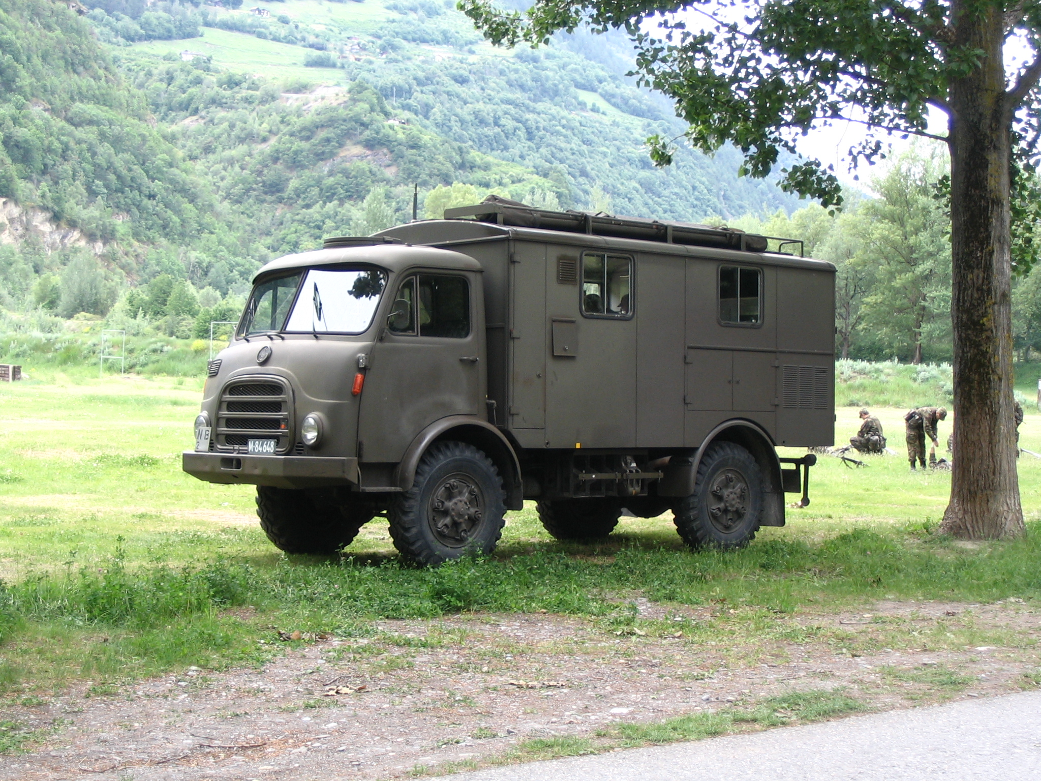 Steyr truck type 680M (aka "Vieille casserole") used by transmission troops of Swiss army